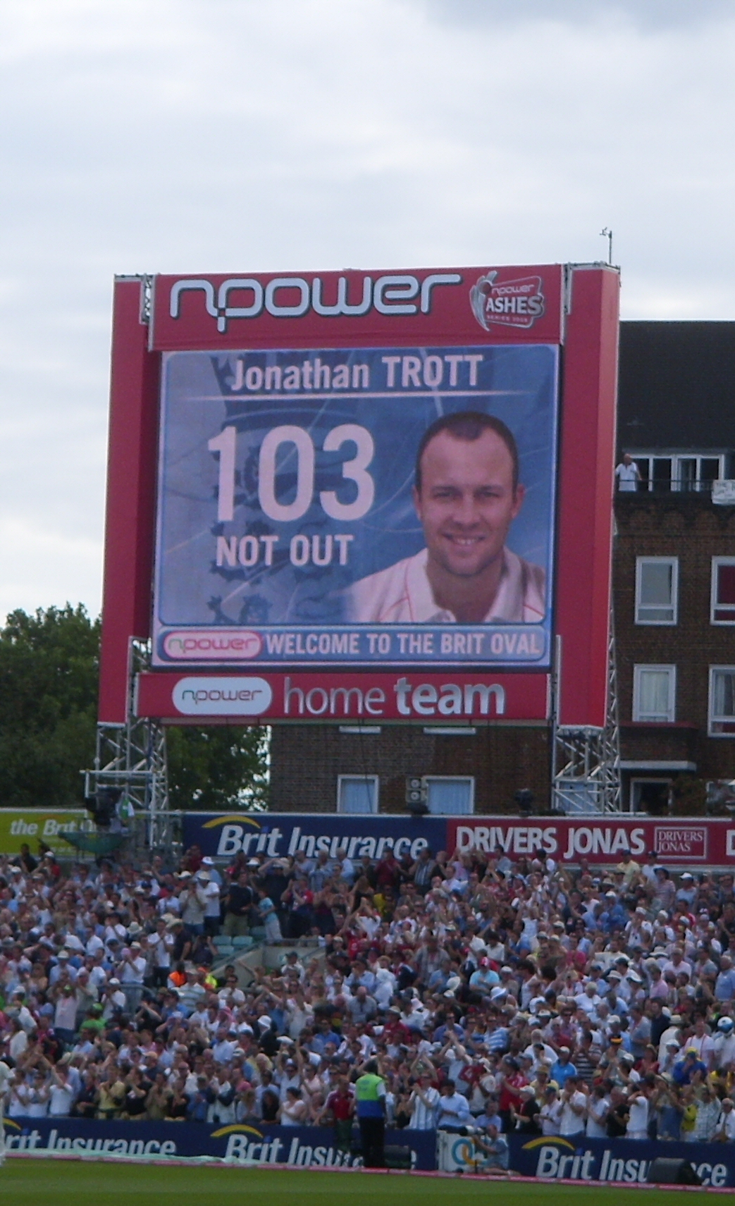 Jonathon Trott's maiden Test century in his first Test match